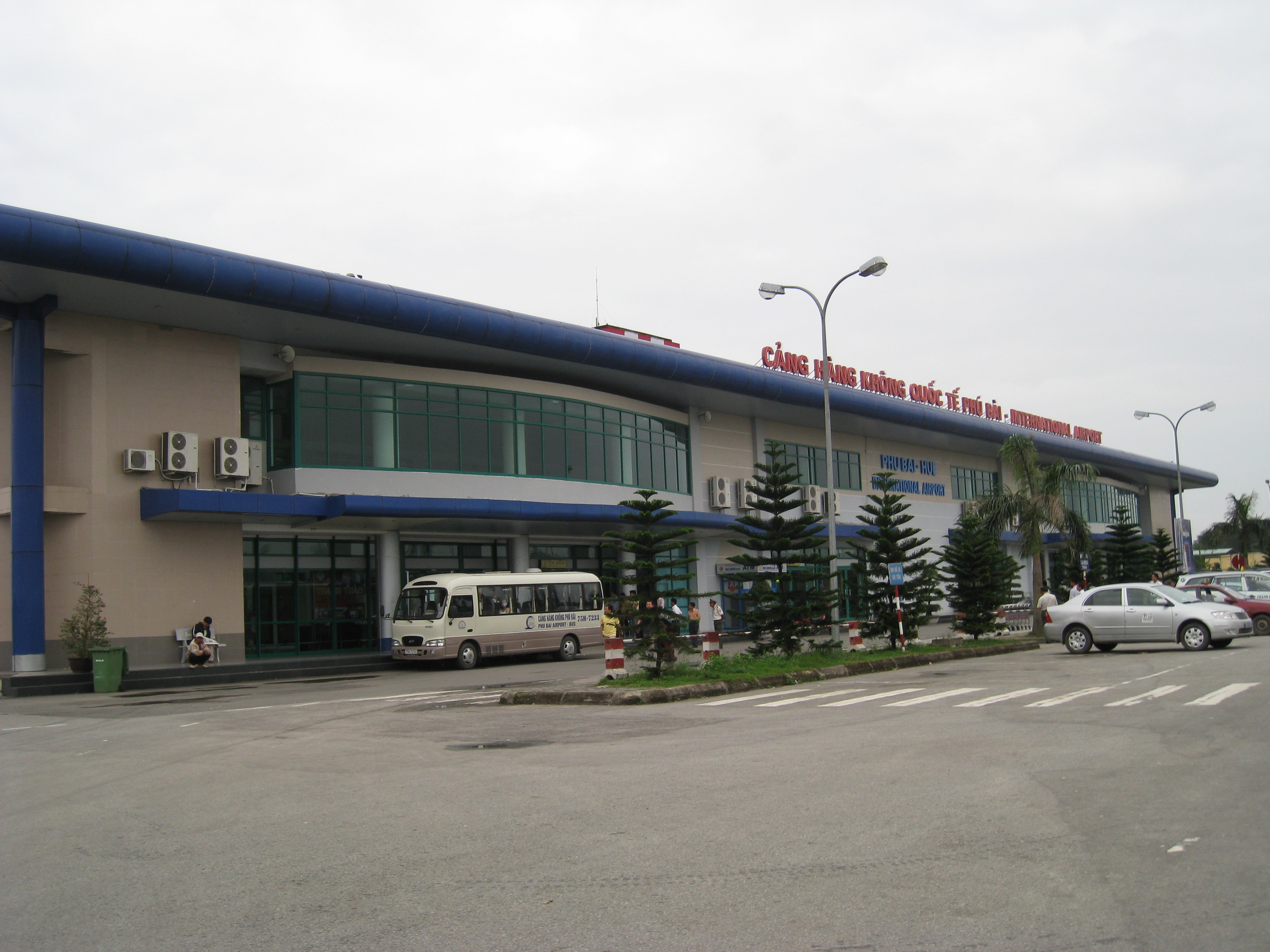 Phu Bai Airport in Hue, Vietnam